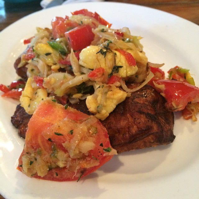 Salt Fish and Ackee